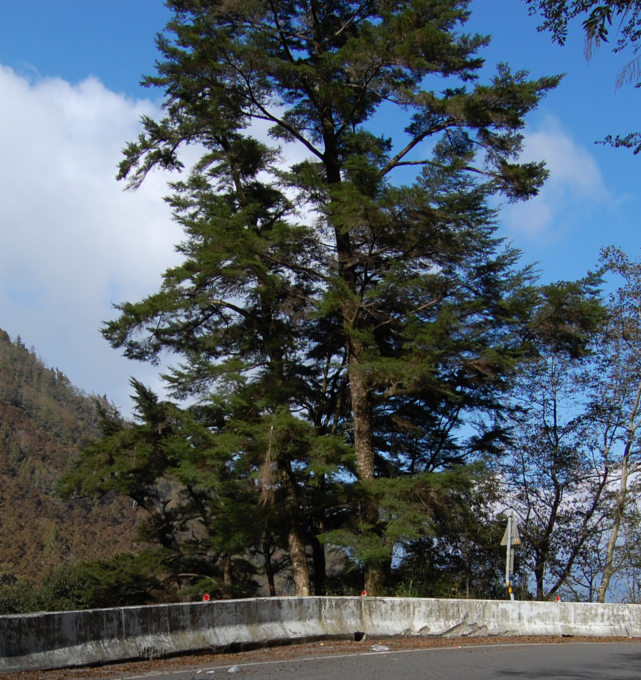 Tsuga chinensis var. formosana, Taiwan South Cross-Island Highway (No. 20)